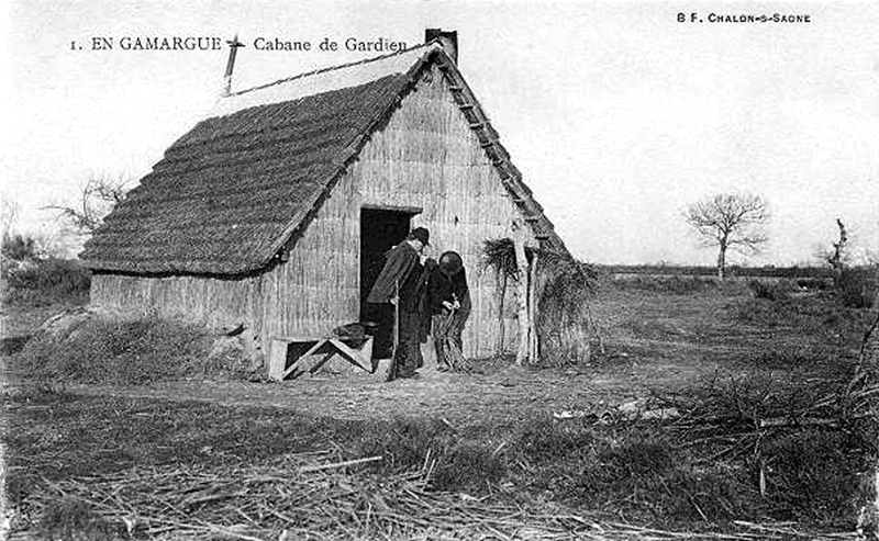 Cabane de gardian tout en roseaux en Camargue / Reed-thatched herdman's hut in the Camargue region, France